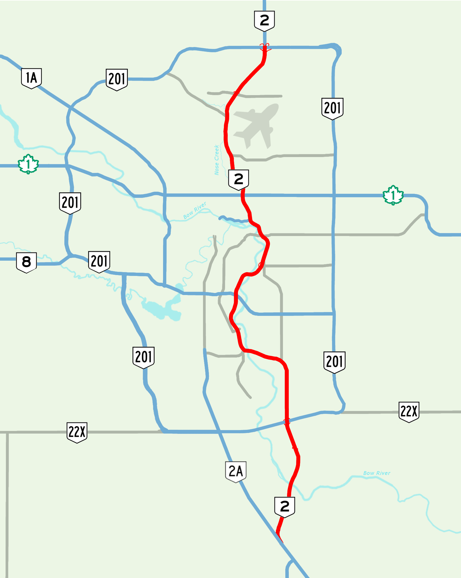 Deerfoot Trail - created with OpenStreetMap